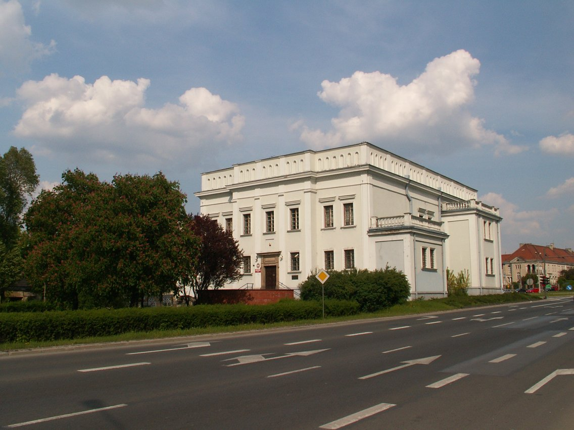 National Archives in Kielce (Poland)